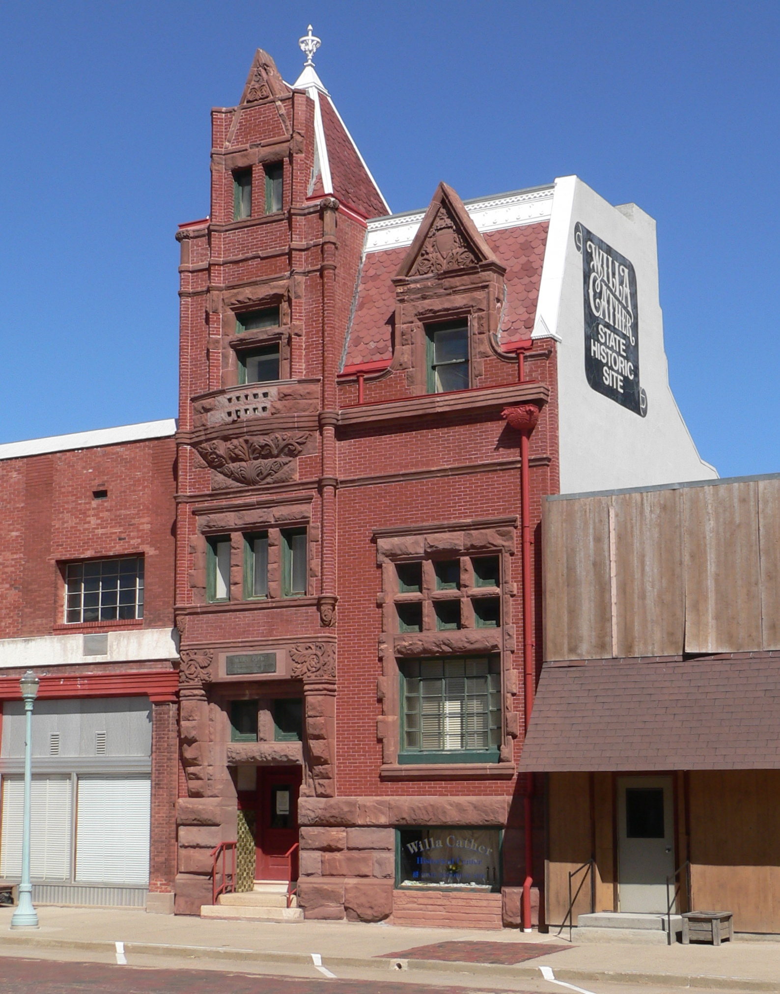 Farmer's and Merchant's Bank Building, located at 338 N. Webster Street in Red Cloud, Nebraska; seen from the southwest. The Renaissance Revival building was built in 1888-89; it is listed in the National Register of Historic Places.